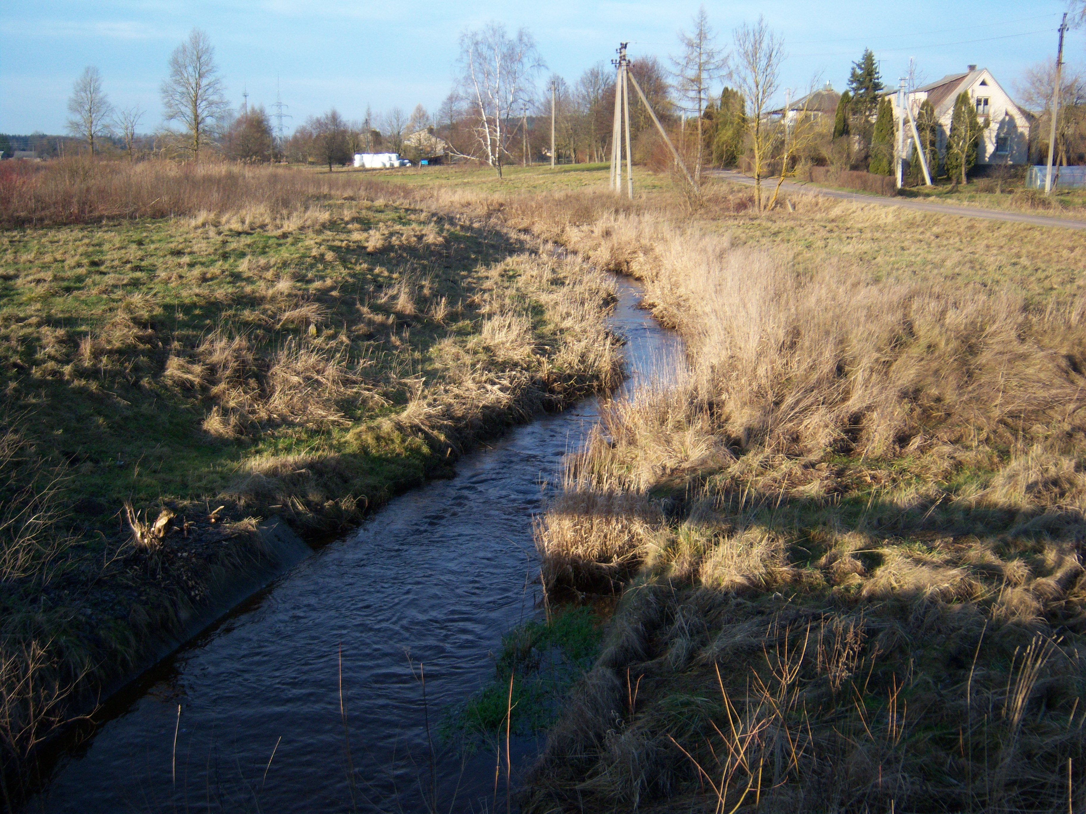 Sandrava River in Žaiginys, Raseiniai District, Lithuania